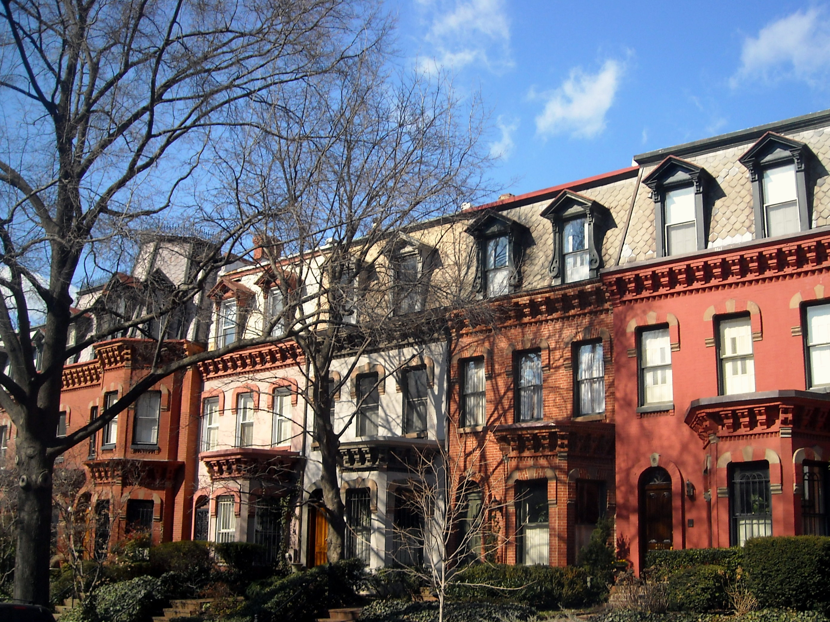 Row houses, located on the 2000 block of N Street, N.W., in the Dupont Circle neighborhood of Washington, D.C. Built between 1879 to 1881, the Second Empire-style homes were designed by architect Christopher Thom. The buildings are designated as contributing properties to the Dupont Circle Historic District, listed on the National Register of Historic Places in 1978.